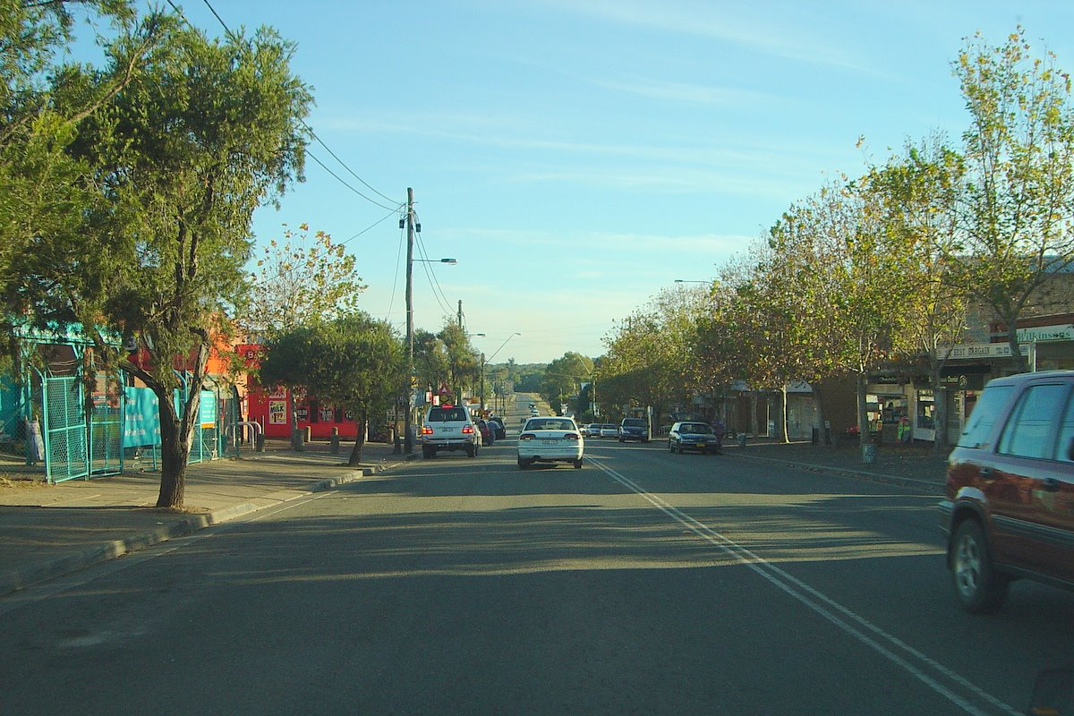 Riverstone, NSW